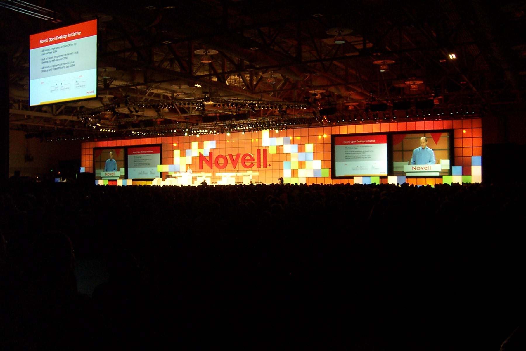 A main session presentation inside the Salt Palace Conference Center during Novell Brainshare 2004 in Salt Lake City, Utah. The speaker and the accompanying presentation slides are outlining certain goals that Novell intended to achieve regarding its internal adoption of OpenOffice and Novell Linux Desktop (aka SUSE Linux Enterprise Desktop).